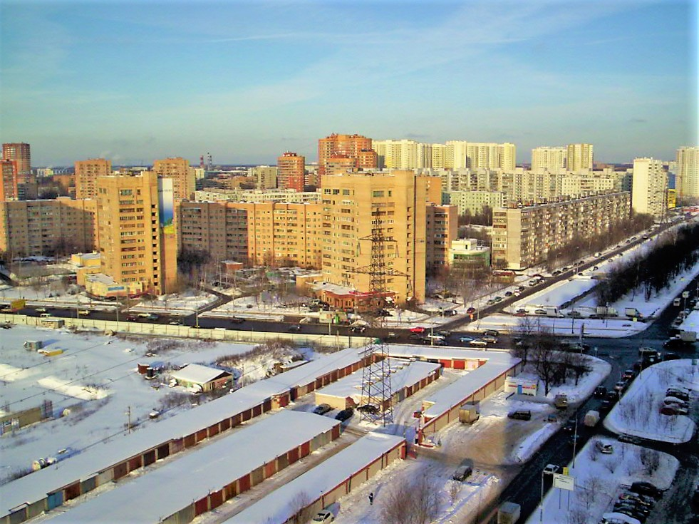 View of the town of Khimki, near Moscow, at the intersection of Babakina Street and Molodezhnaya Street, view from south, photo taken on Feb. 17 2010 at 15:44 local time